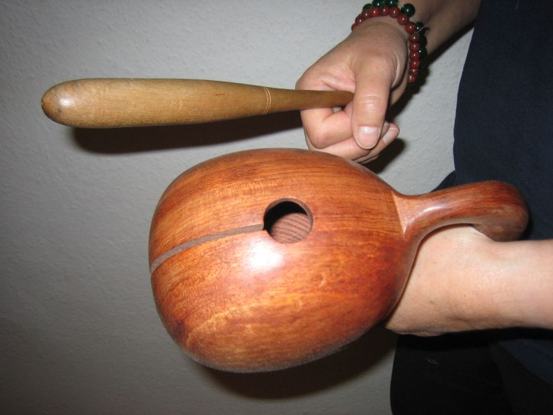 A Moktak is a music-instrument used at Buddhistic recitation in Korea.